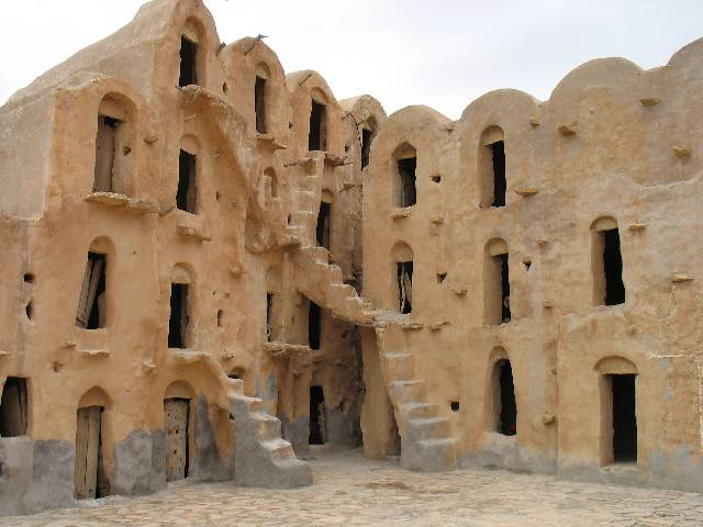 Ksar Ouled Soltane in southern Tunisia is a ksar constructed out of mud bricks as a series of vaulted rooms or ghorfas. It was featured in Star Wars: The Phantom Menace as one of the slave quarters of Mos Espa, home to young Anakin Skywalker.